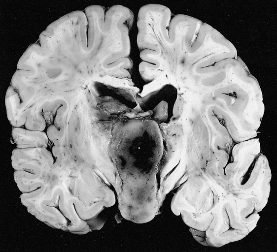 CNS: PILOCYTIC ASTROCYTOMA OF THE HYPOTHALAMIC REGION Pilocytic astrocytomas are soft, fleshy, and somewhat discrete. This example largely occupies the third ventricle.